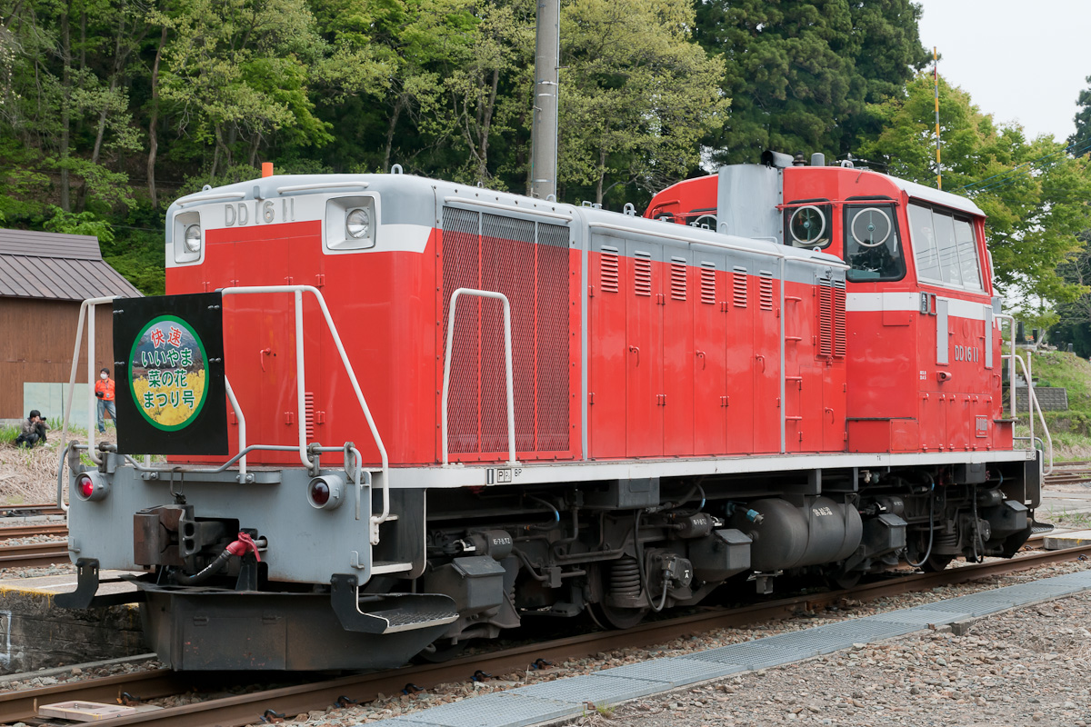 JR East Class DD16 diesel locomotive DD16 11 on the Iiyama Line